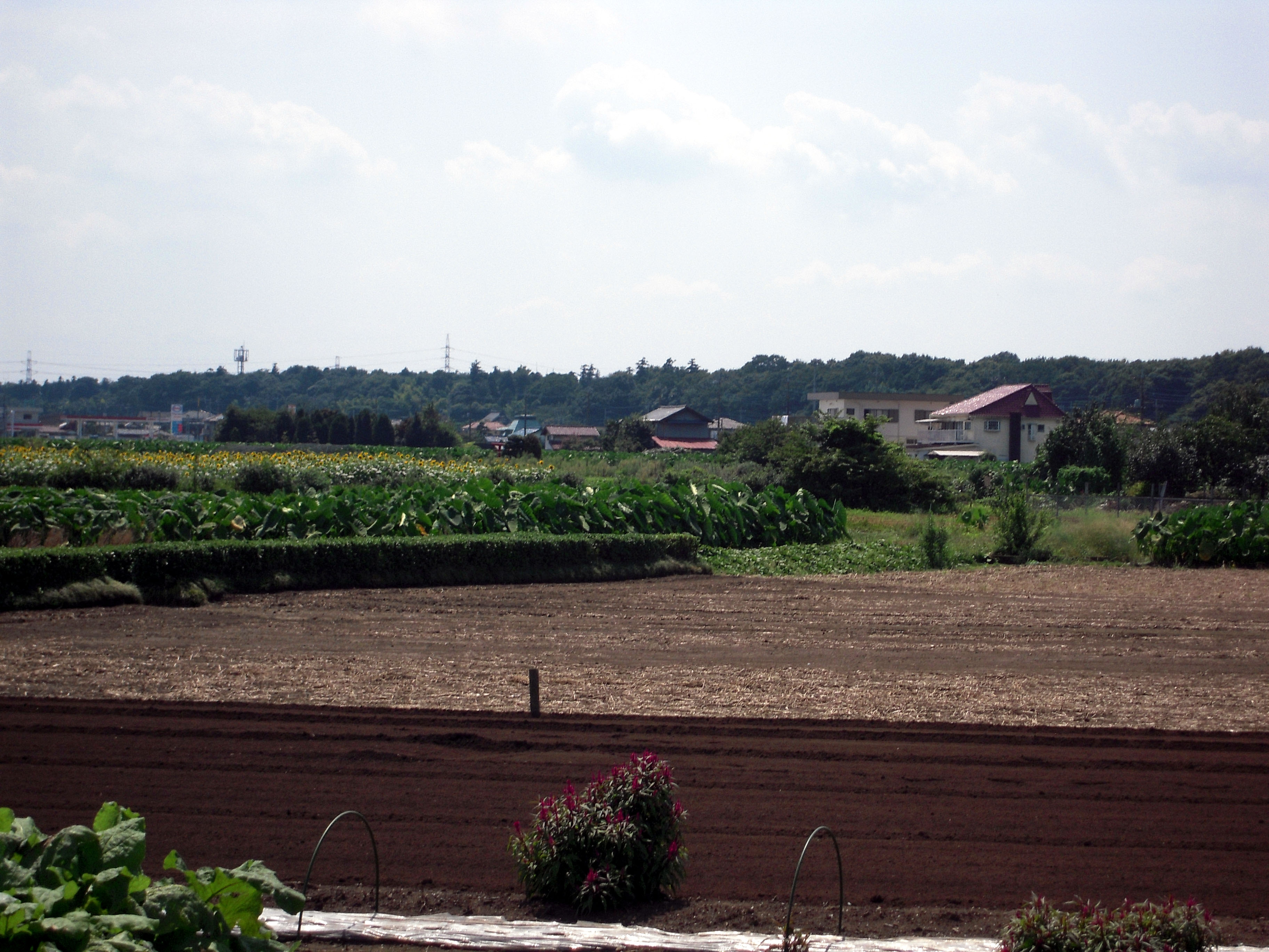 Yashikimori landscape. Sayamadai, Sayama, Saitama